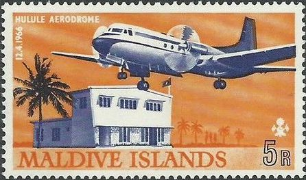 Maldives 1967 Airport 500